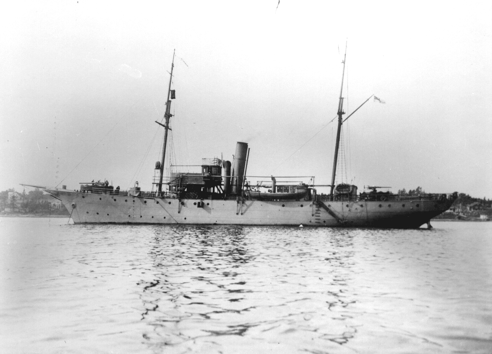 Canadian patrol vessel HMCS Stadacona.